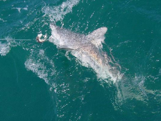 Hooked sandbar shark (Carcharhinus plumbeus)